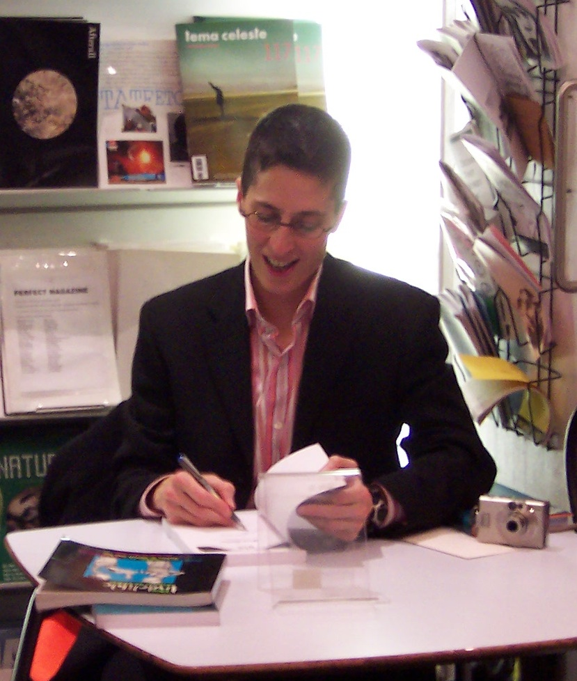 Cartoonist and writer Alison Bechdel at a book signing at the ICA Shop in London, 2006.